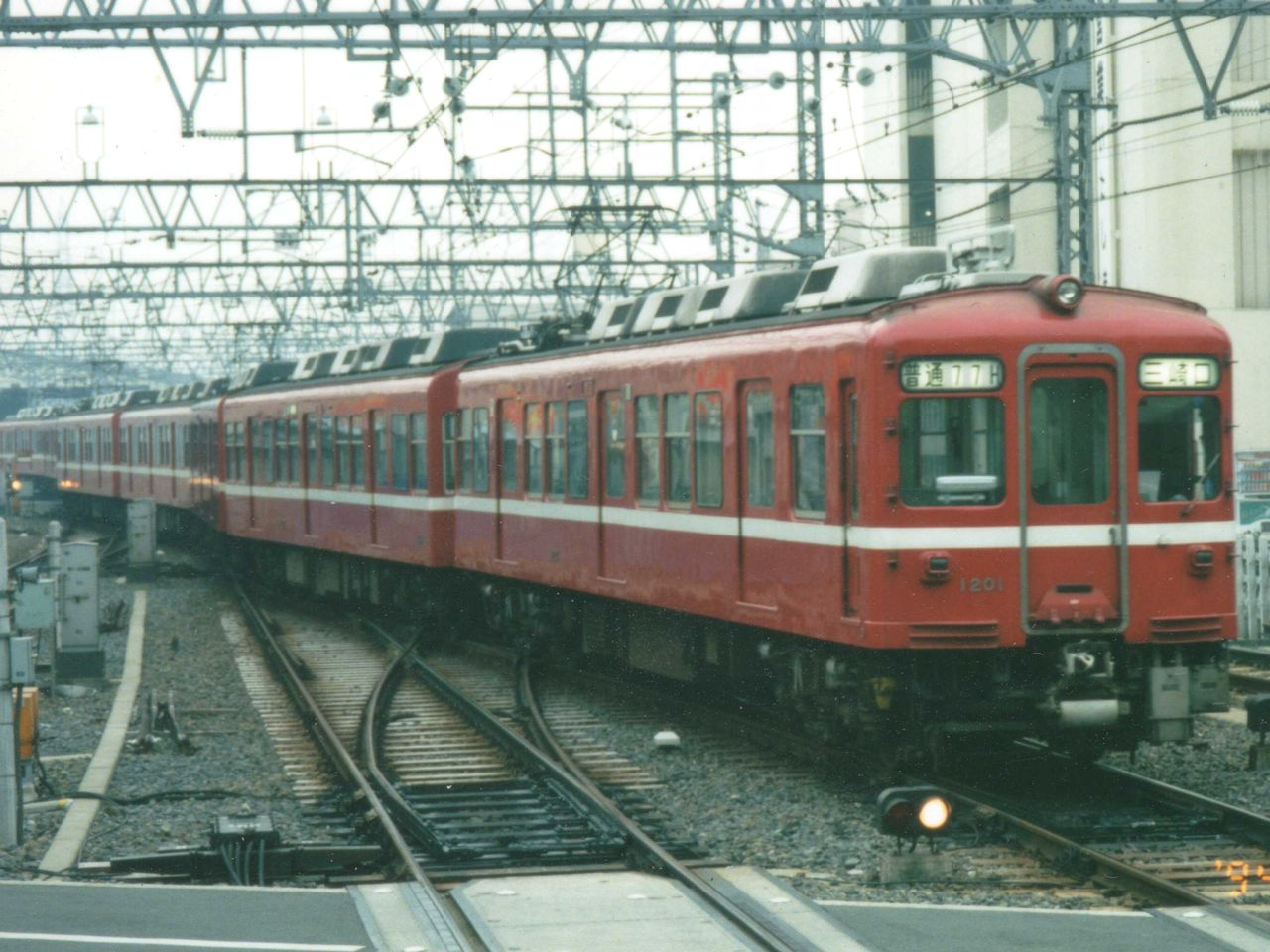 Keihin Electric Express Railway Co.,Ltd, EMU Type 1000 No.1201